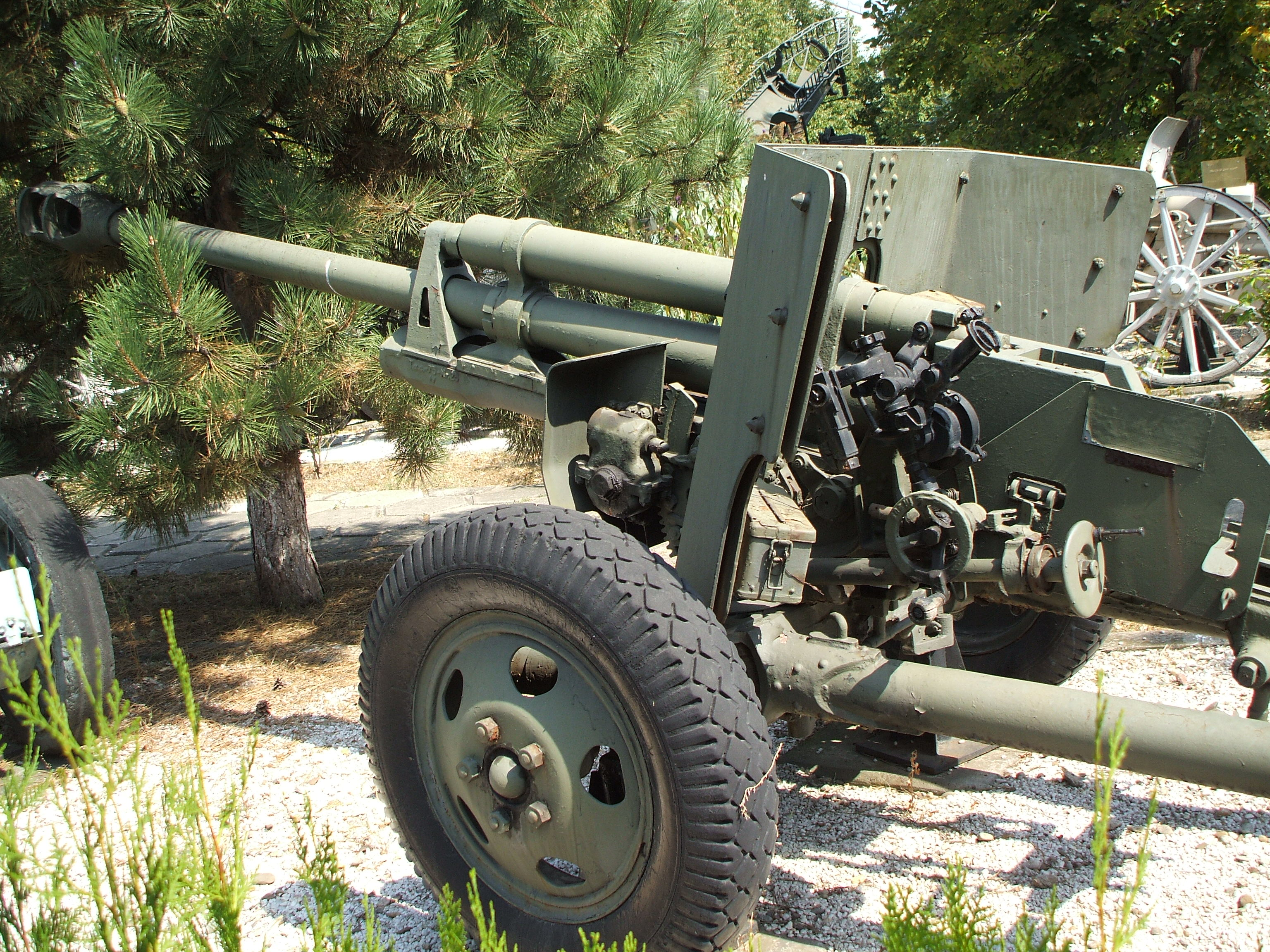 75 mm Reşiţa Model 1943 anti-tank gun